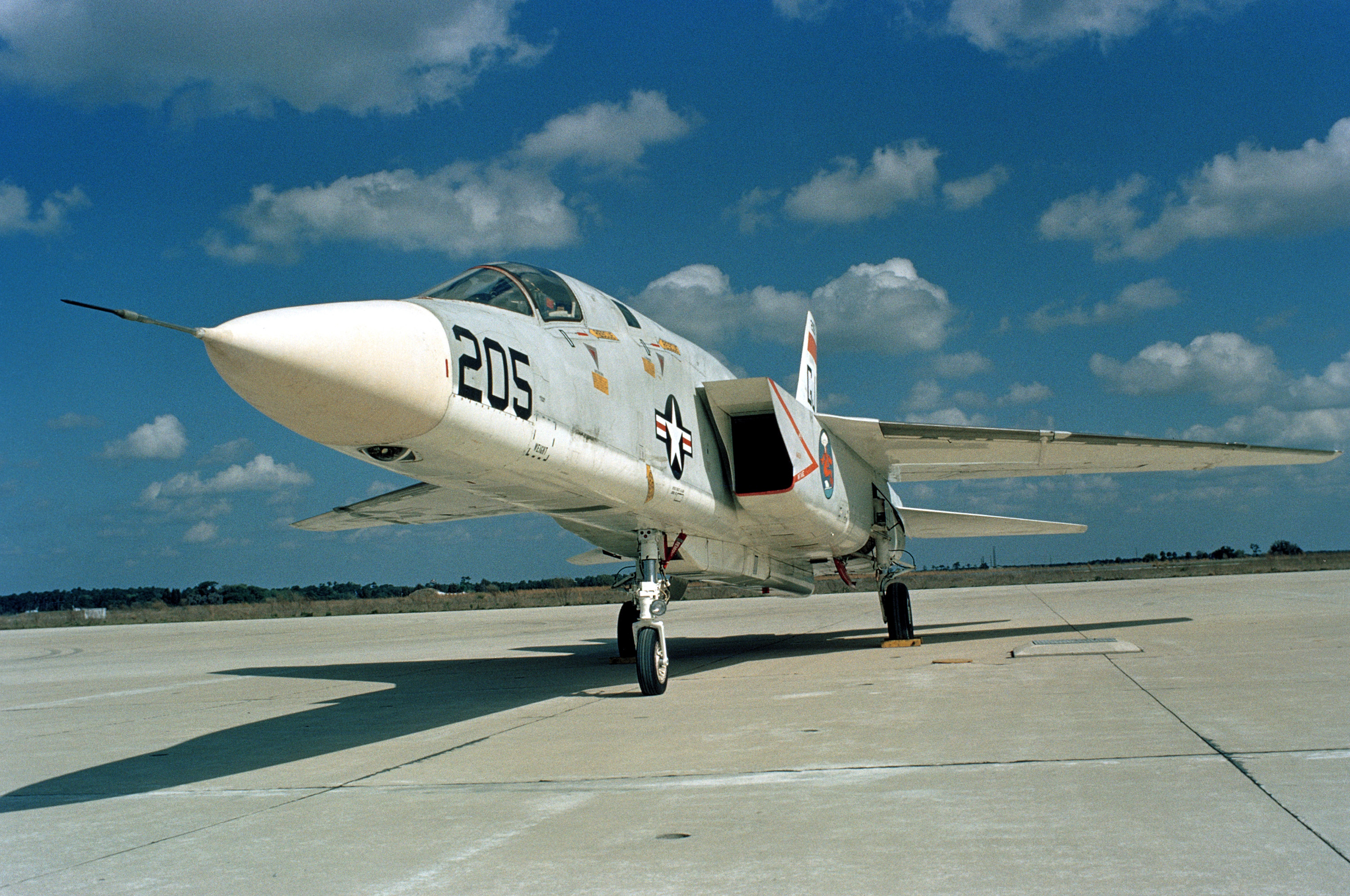 A U.S. Navy North American RA-5C Vigilante of Reconnaissance Heavy Attack Squadron 3 (RVAH-3) "Sea Dragons" is parked on the flight line at Naval Air Station Sanford, Florida (USA), on 27 March 1968.